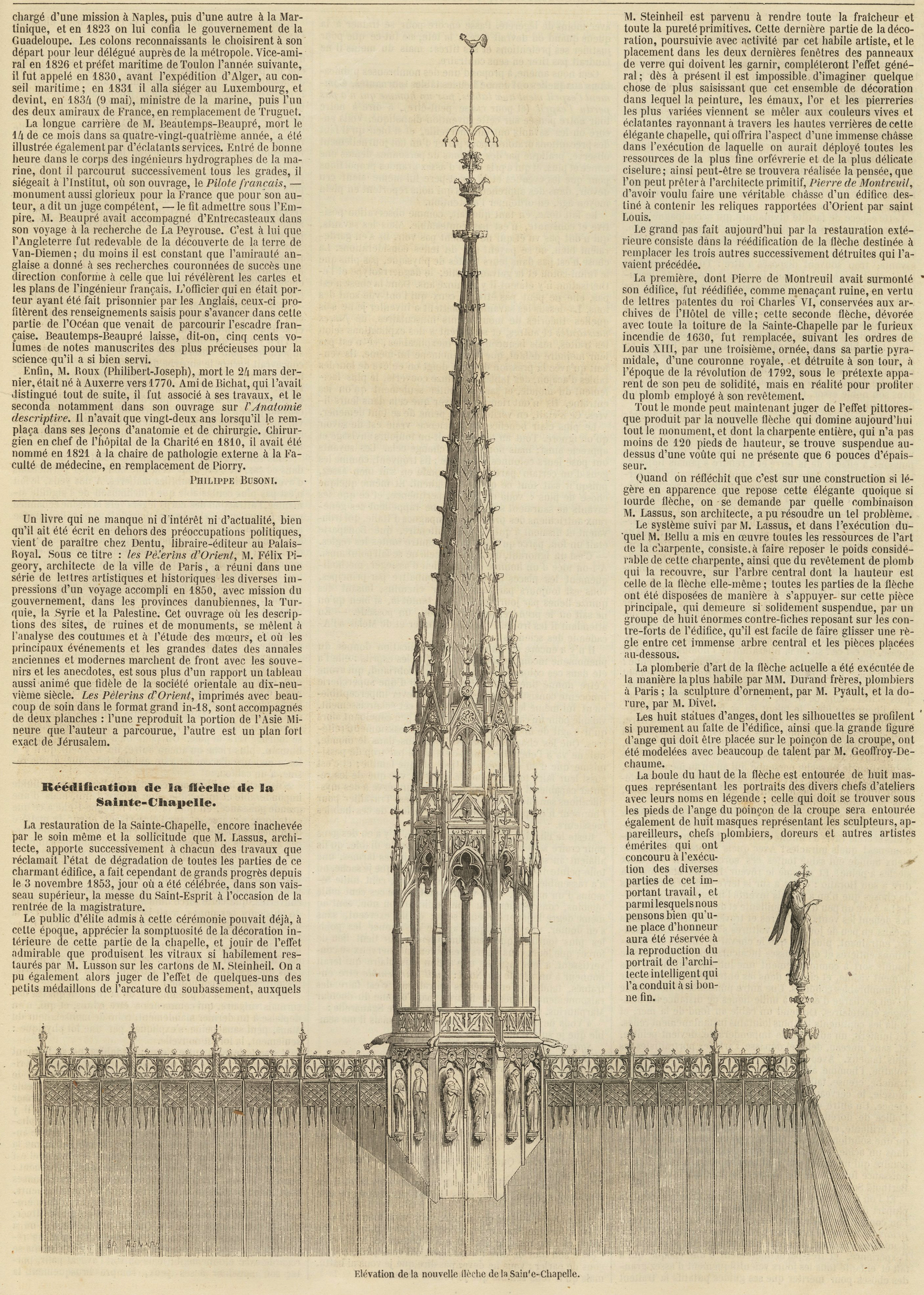 In 1854, the steeple of the Saint-Chapelle Cathedral was resurrected to replace the previous one destroyed in 1792